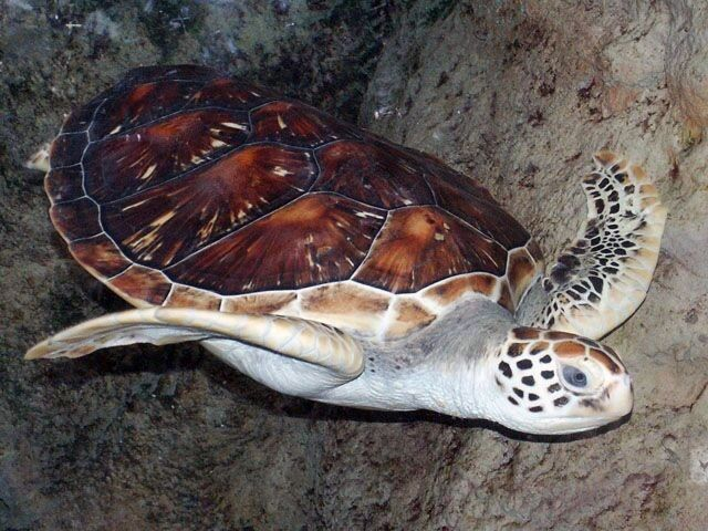 Green turtle